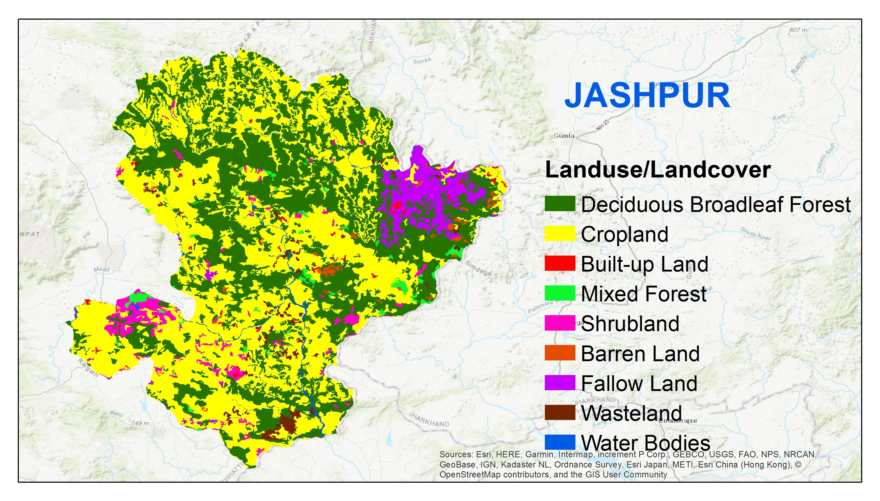 Satellite derived landuse landcover image of jashpur data provided by ORNL DAAC